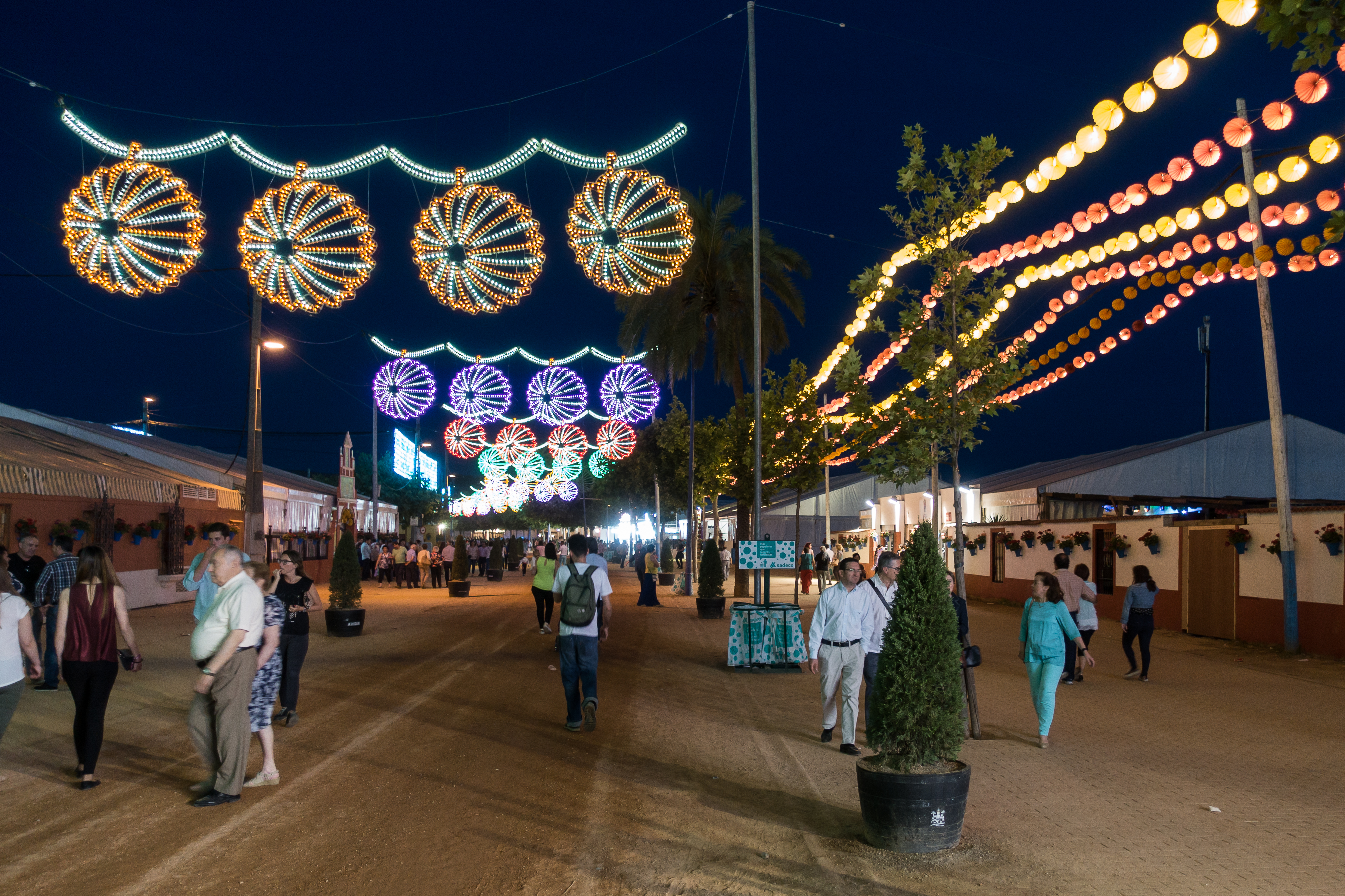 Cordoba Fair 2016. The fairground at night.